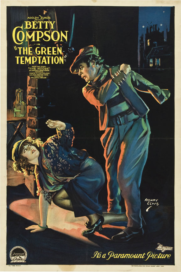 Poster for the American melodrama film The Green Temptation (1922) with Betty Compson and Theodore Kosloff.